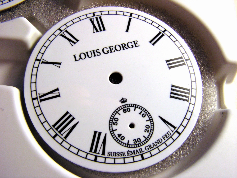 Genuine LOUIS GEORGE fire enamel watch dial.